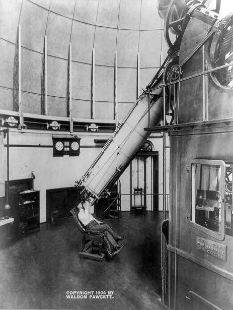 26-inch Warner & Swasey refracting telescope, United States Naval Observatory.